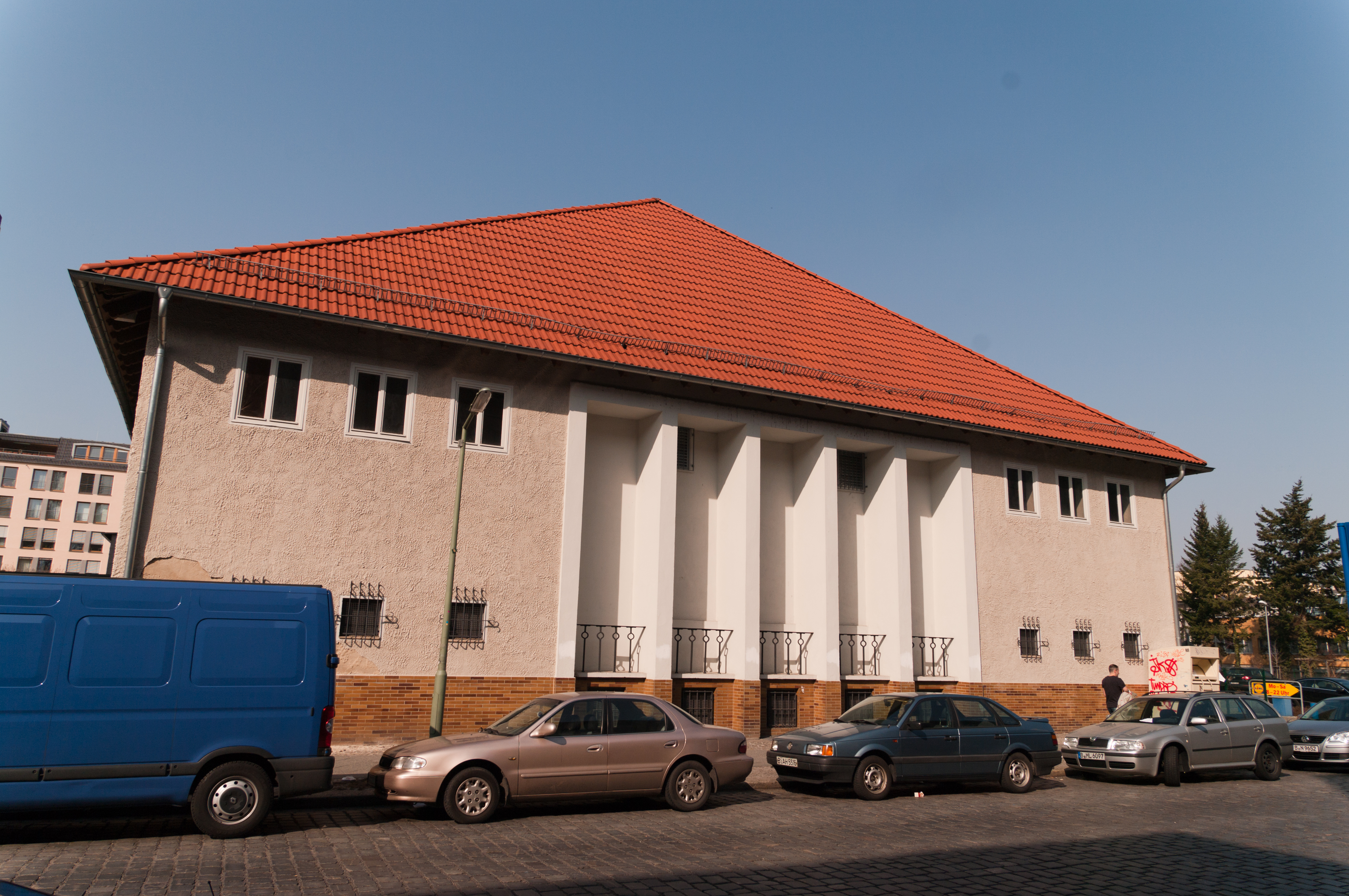 "Prälat schöneberg", eastern front